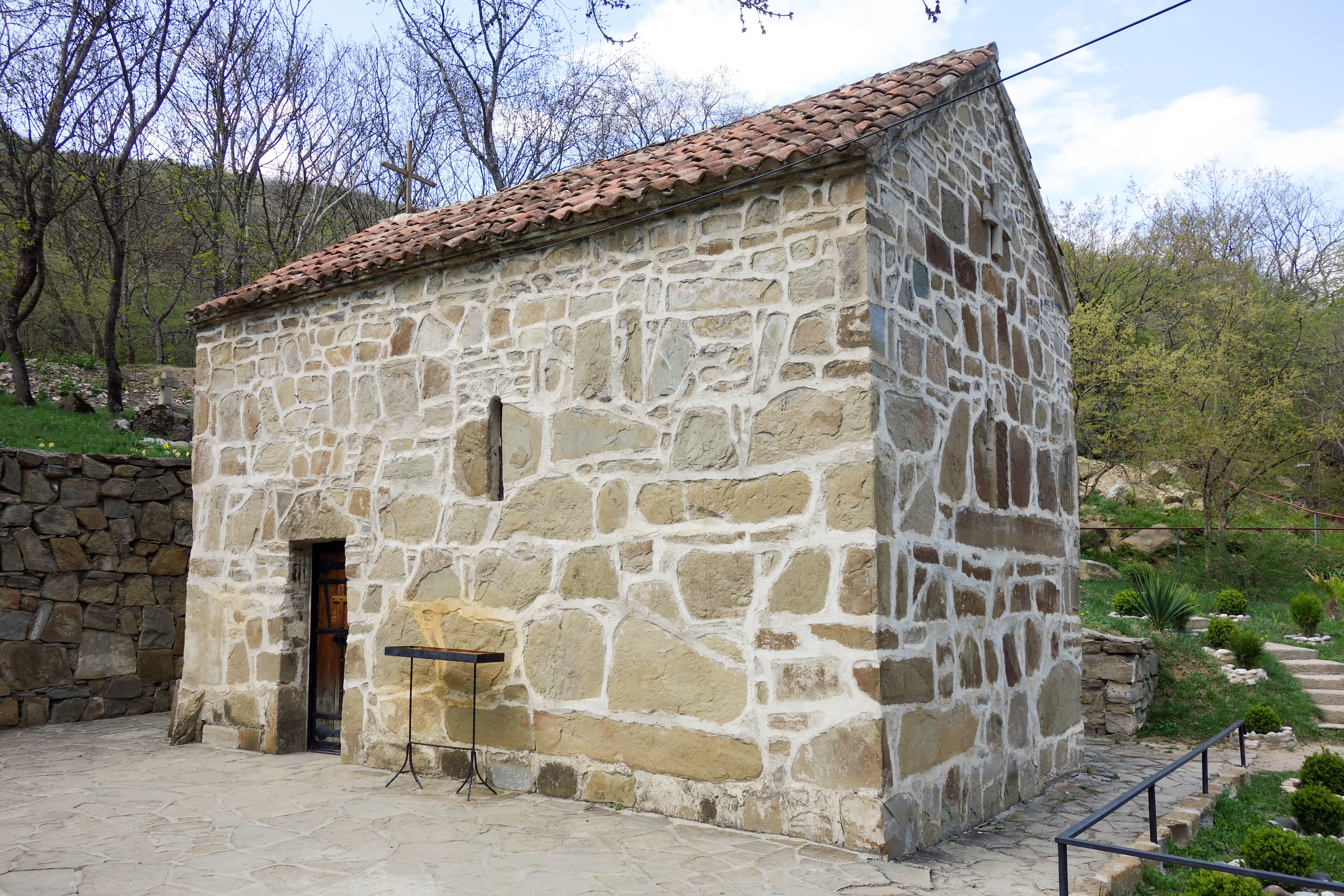 St. Mary Church of Tsikhedidi, Dzegvi, Georgia